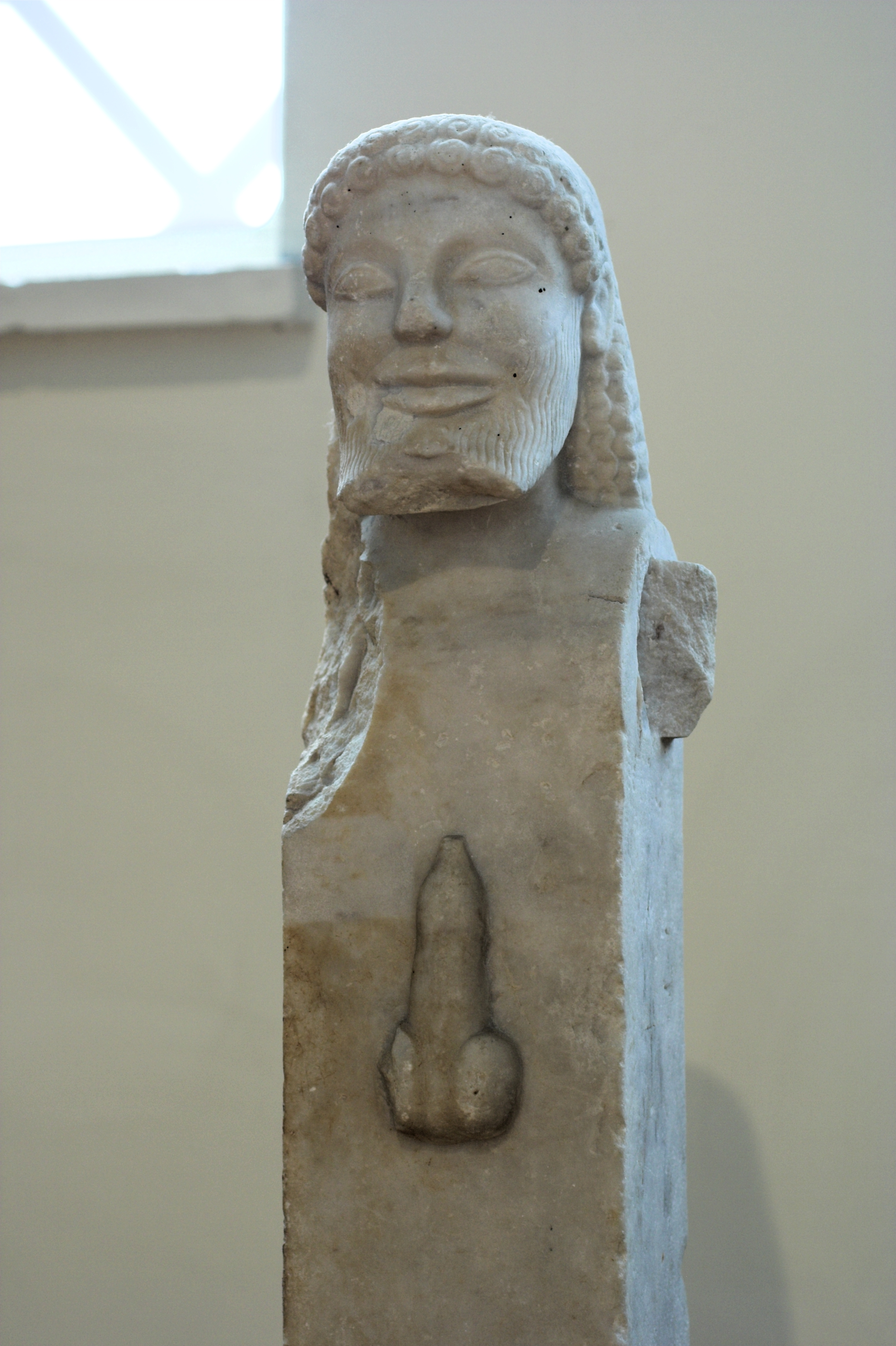 Hermes ithyphallicus, Herm form Sifnos, islandic marble, circa 520 BC. National Archaeological Museum of Athens N 3728.